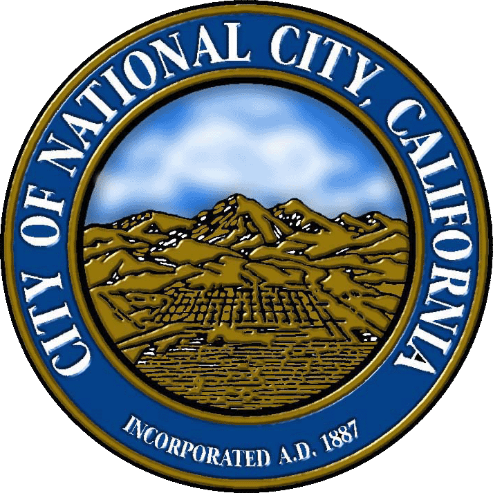 National City, California official seal